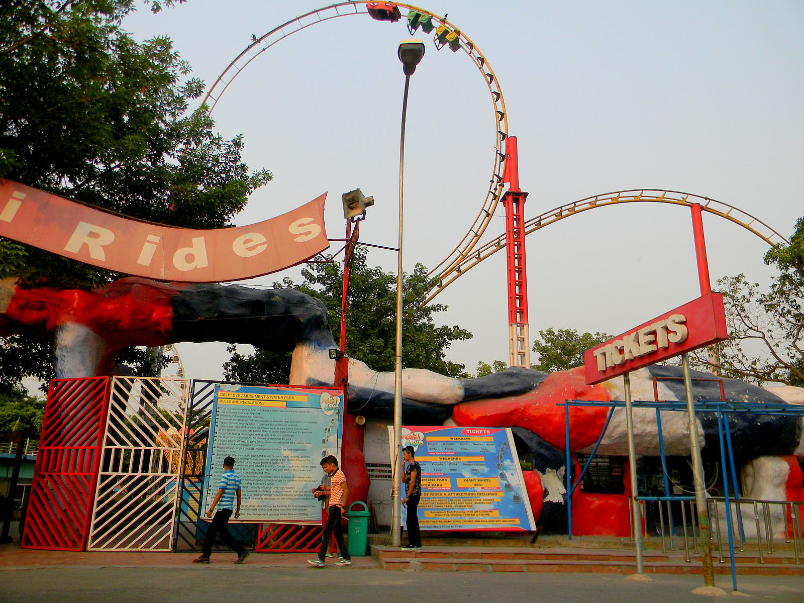 Delhi Rides Main Gate